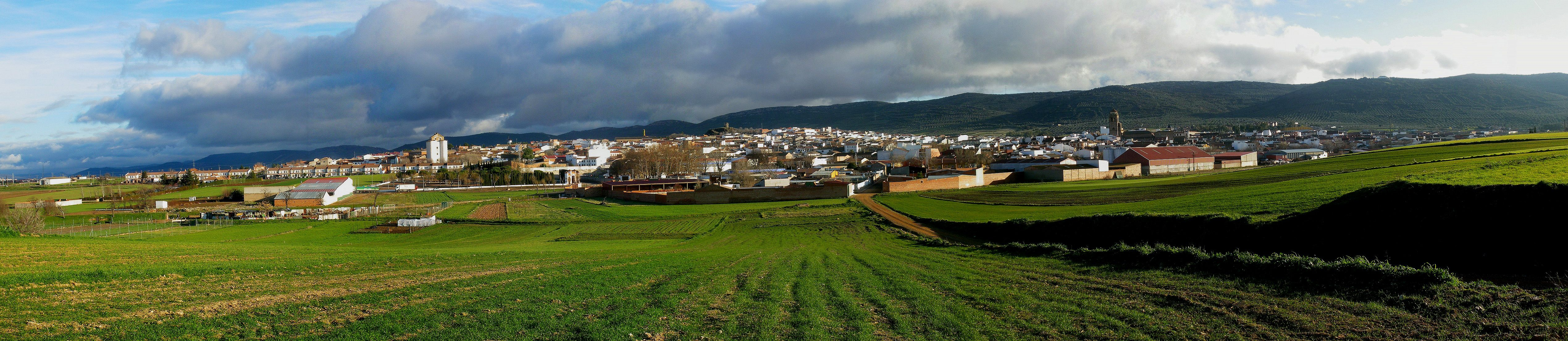 Panoramic view of Almodóvar del Campo from the cemetery road.